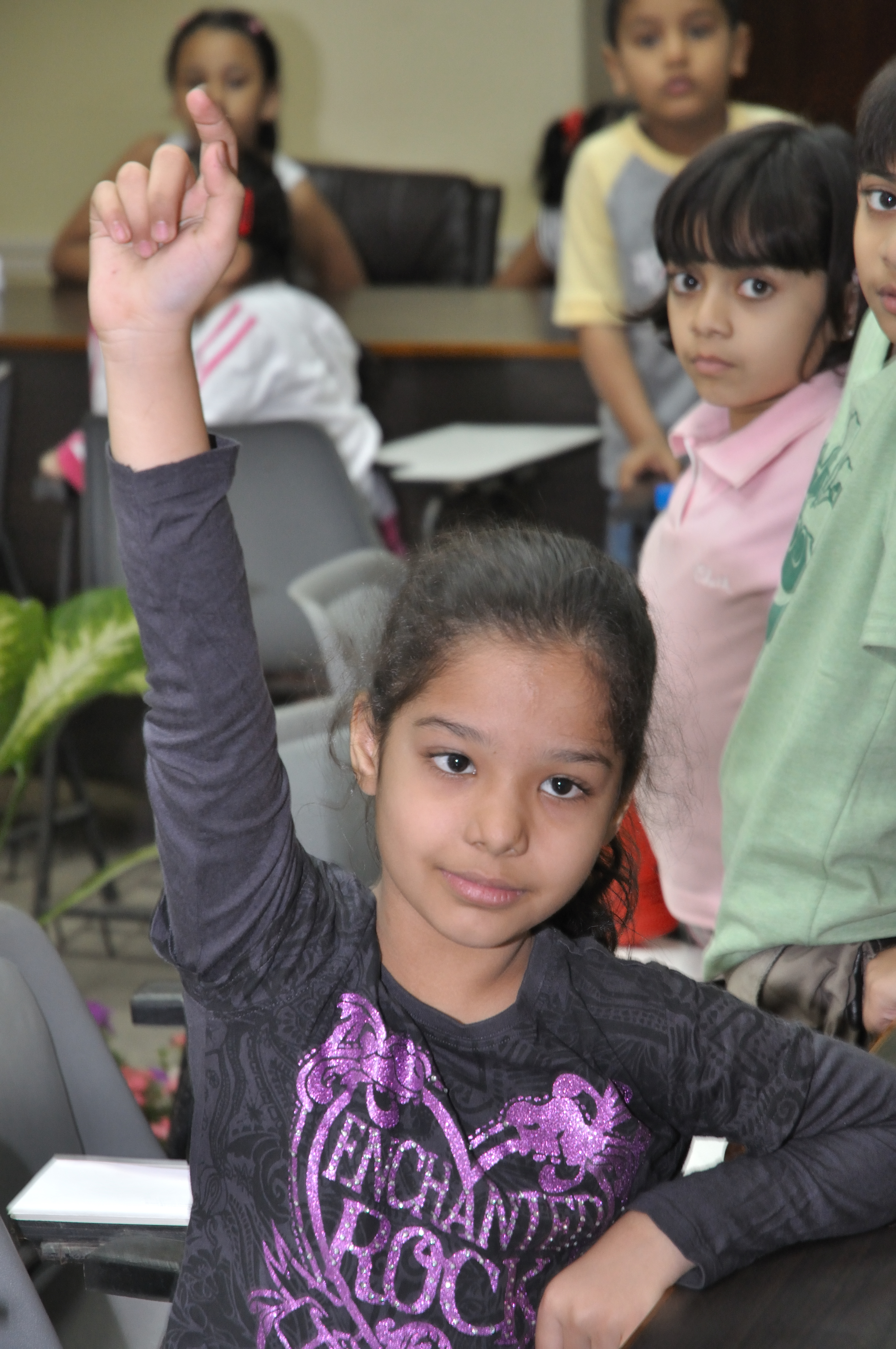 School child on Educational Workshop ‘Darwin Now’, held at Birla Industrial & Technological Museum (BITM) on 6th March, 2010 organized by the British Council, Kolkata.